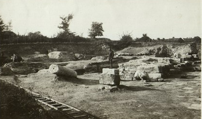 Bulgaria